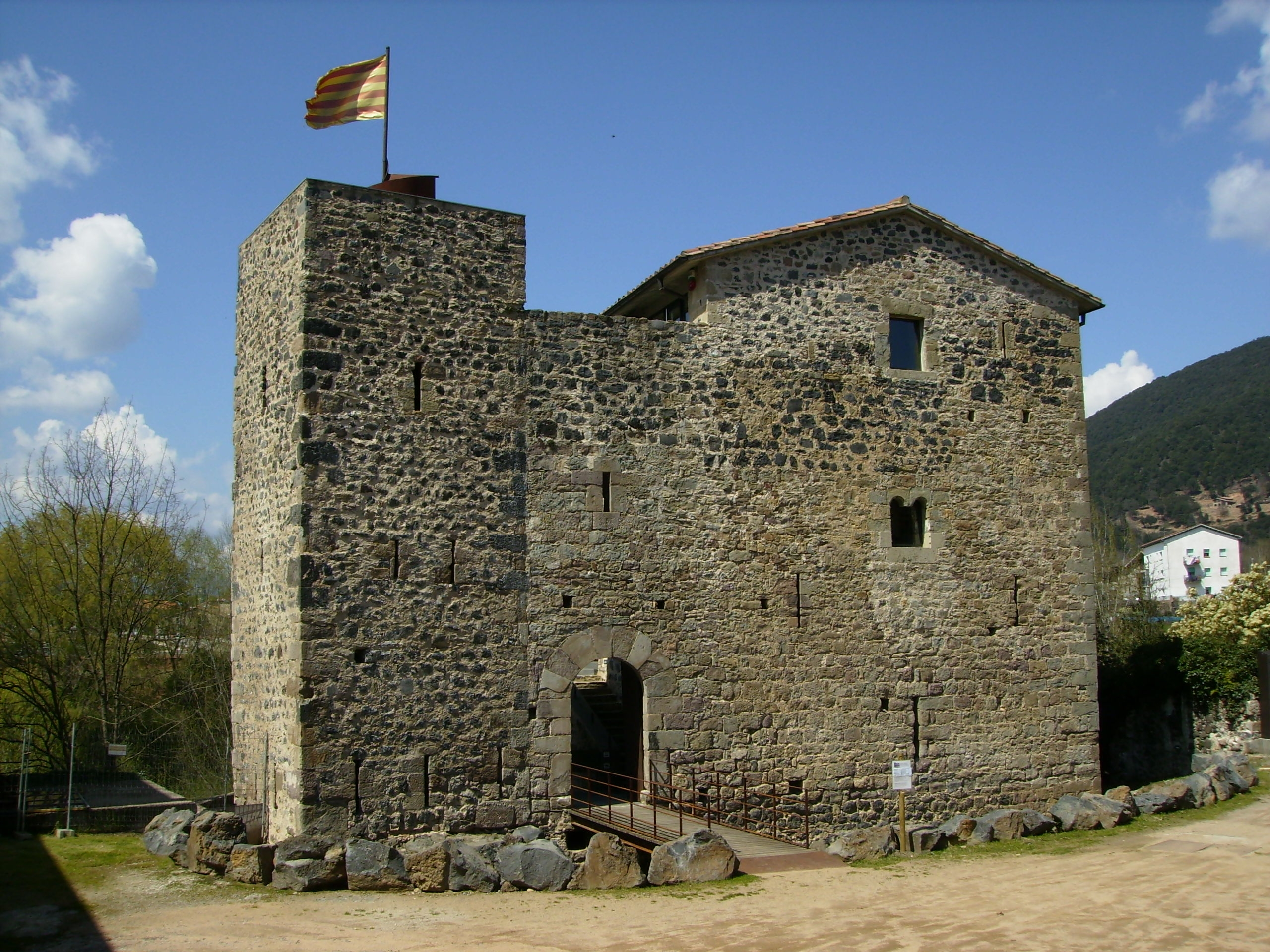 Estada Juvinyà in Sant Joan les Fonts (Catalonia)